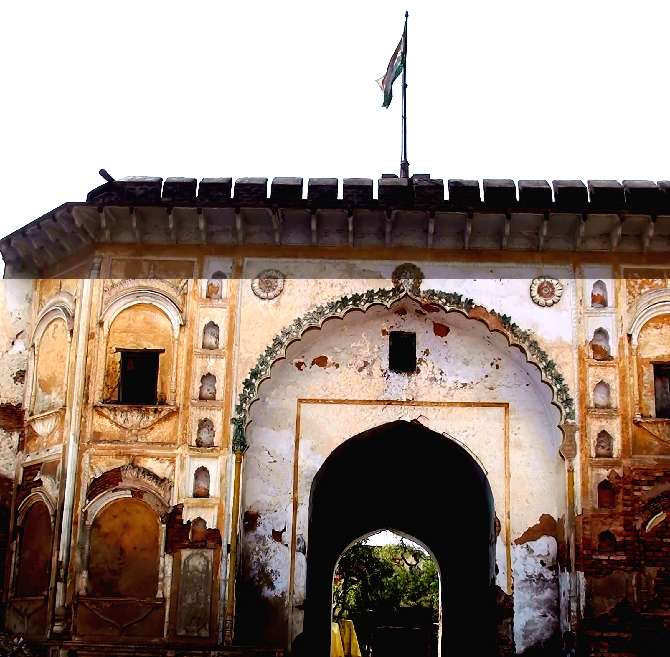 An Image of Sadabad Fort